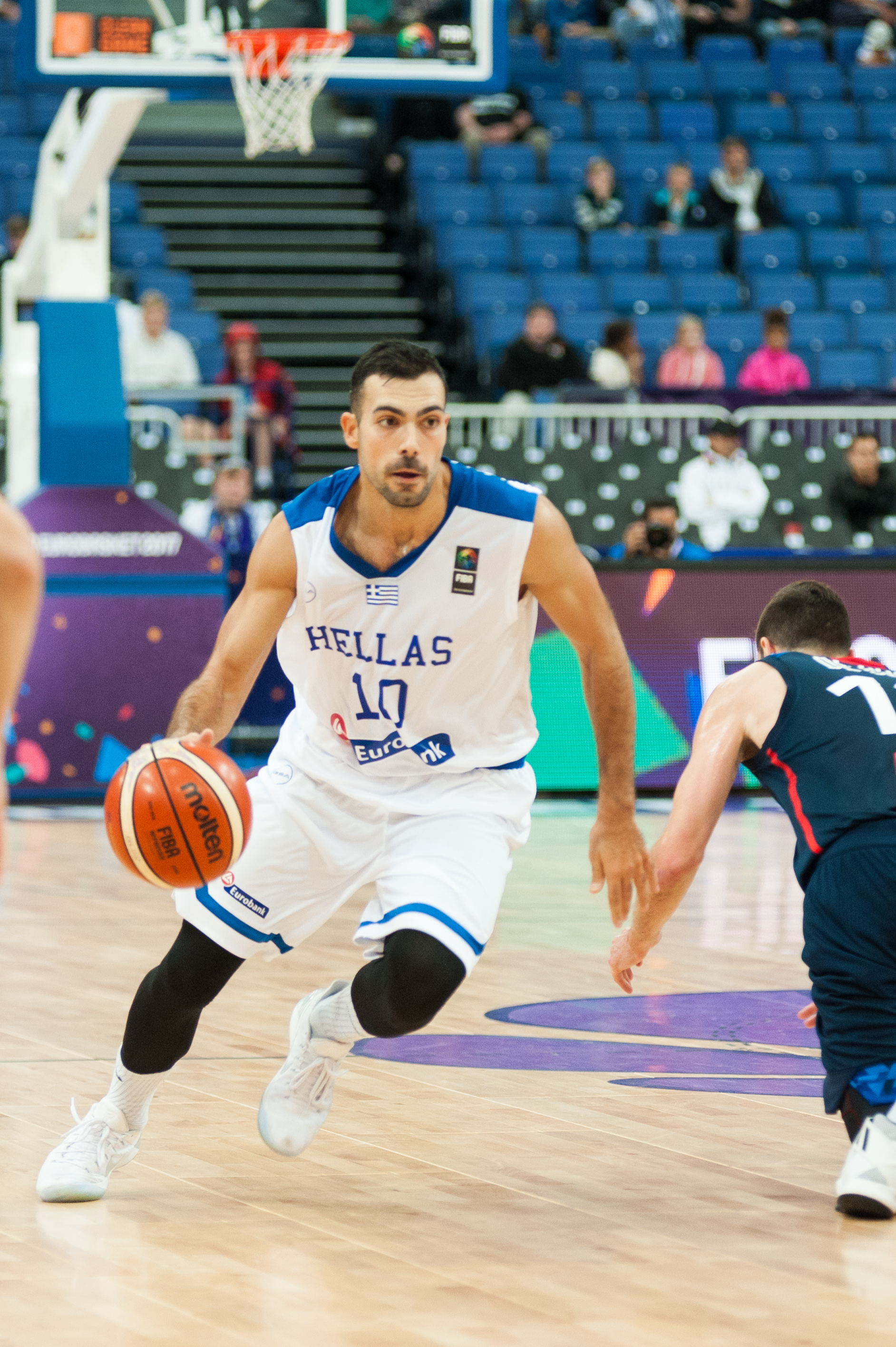 EuroBasket 2017 Group A game between Greece and France at Hartwall Arena in Helsinki, Finland.